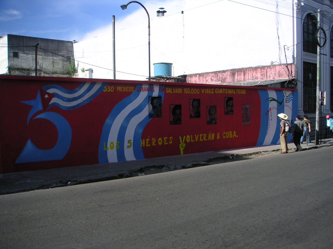 Mural in Guatemala City, Guatemala, in support of 5 Cubans imprisoned in USA. Photo: Soman